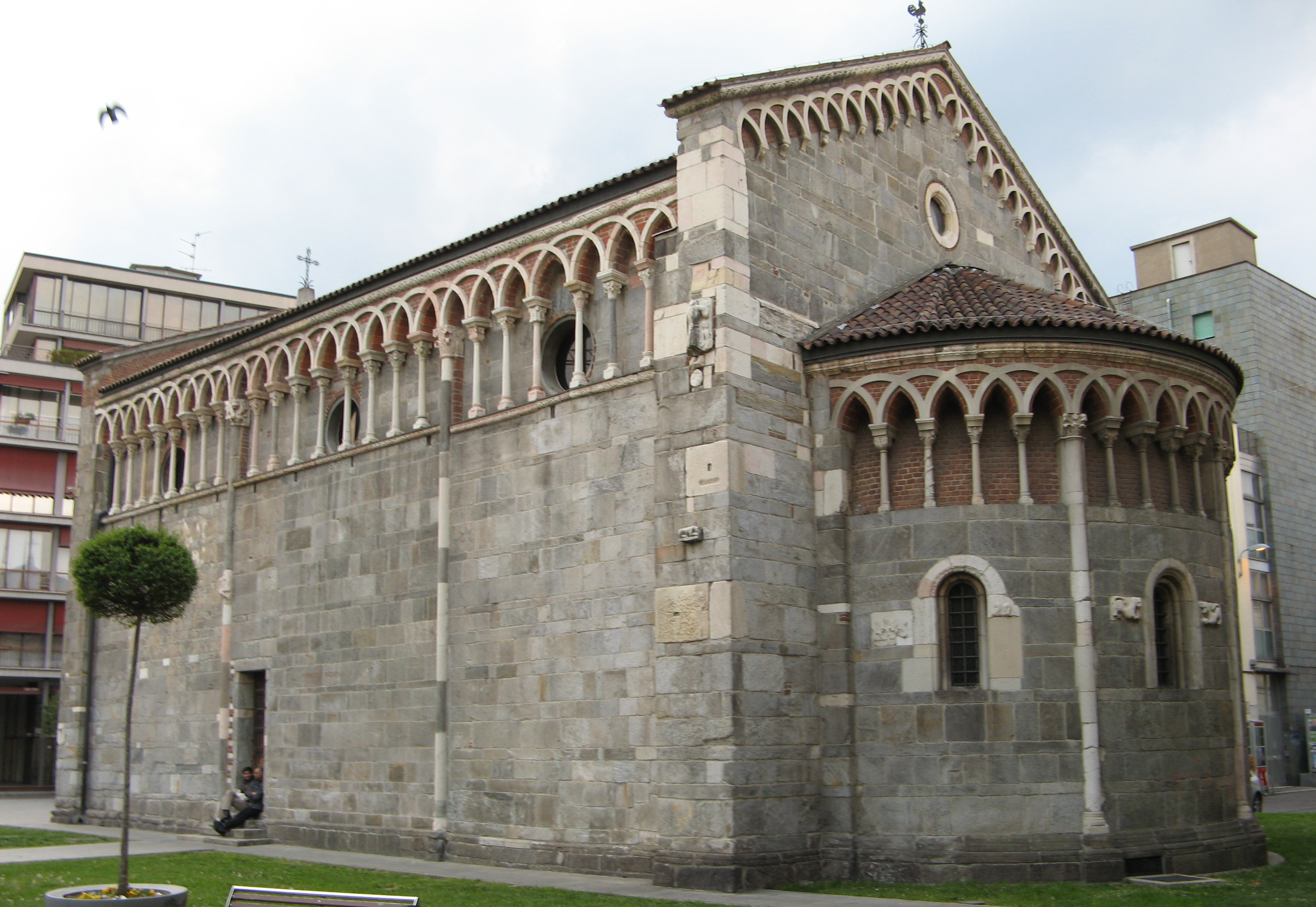 Church of San Pietro in Gallarate (Varese, Italy)